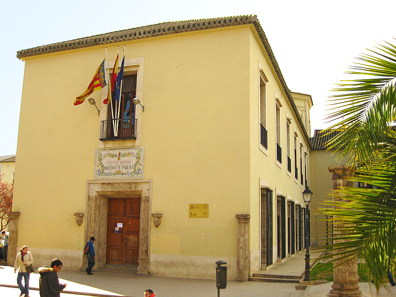 Valencia Public Library, Spain